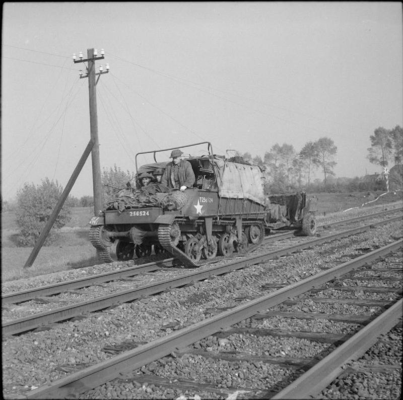 The British Army in North-west Europe 1944-45 Loyd carrier and 6-pdr anti-tank gun of 71st Anti-Tank Regiment, 53rd Division, drives along a railway line outside Hertogenbosch, 25 October 1944.